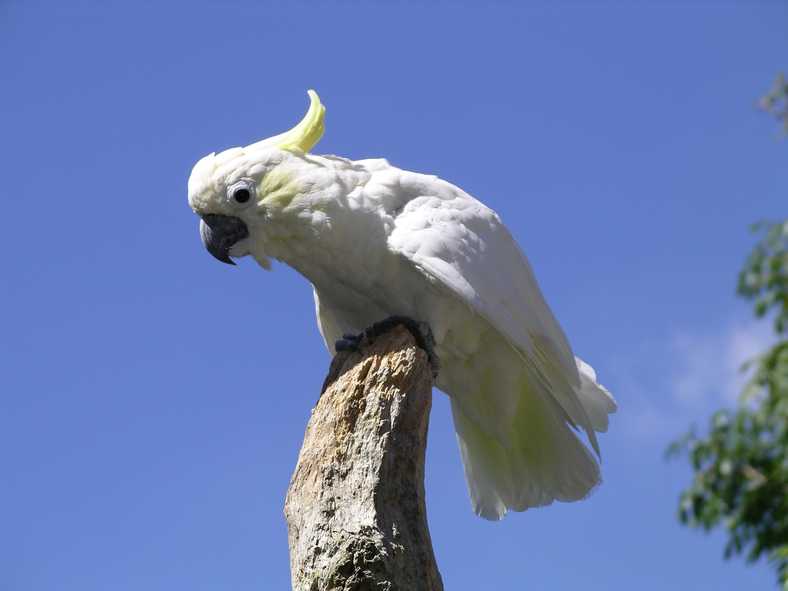 photo of Lesser Sulphur-crested Cockatoo (wings clipped)